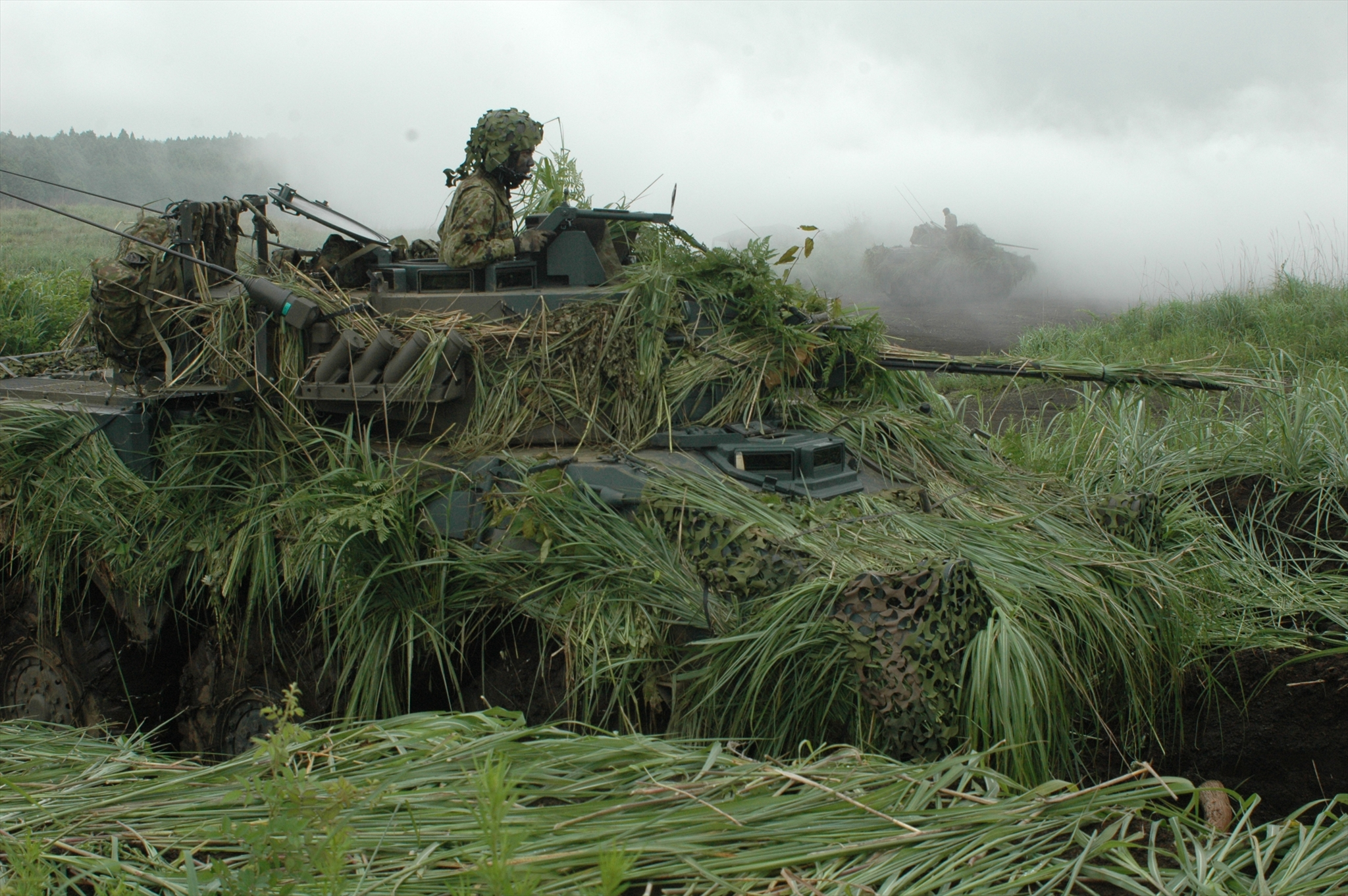 Title １Ｄ：翼側警戒中の偵察隊_R.JPG Album 装備 ８７式偵察警戒車（偵察）